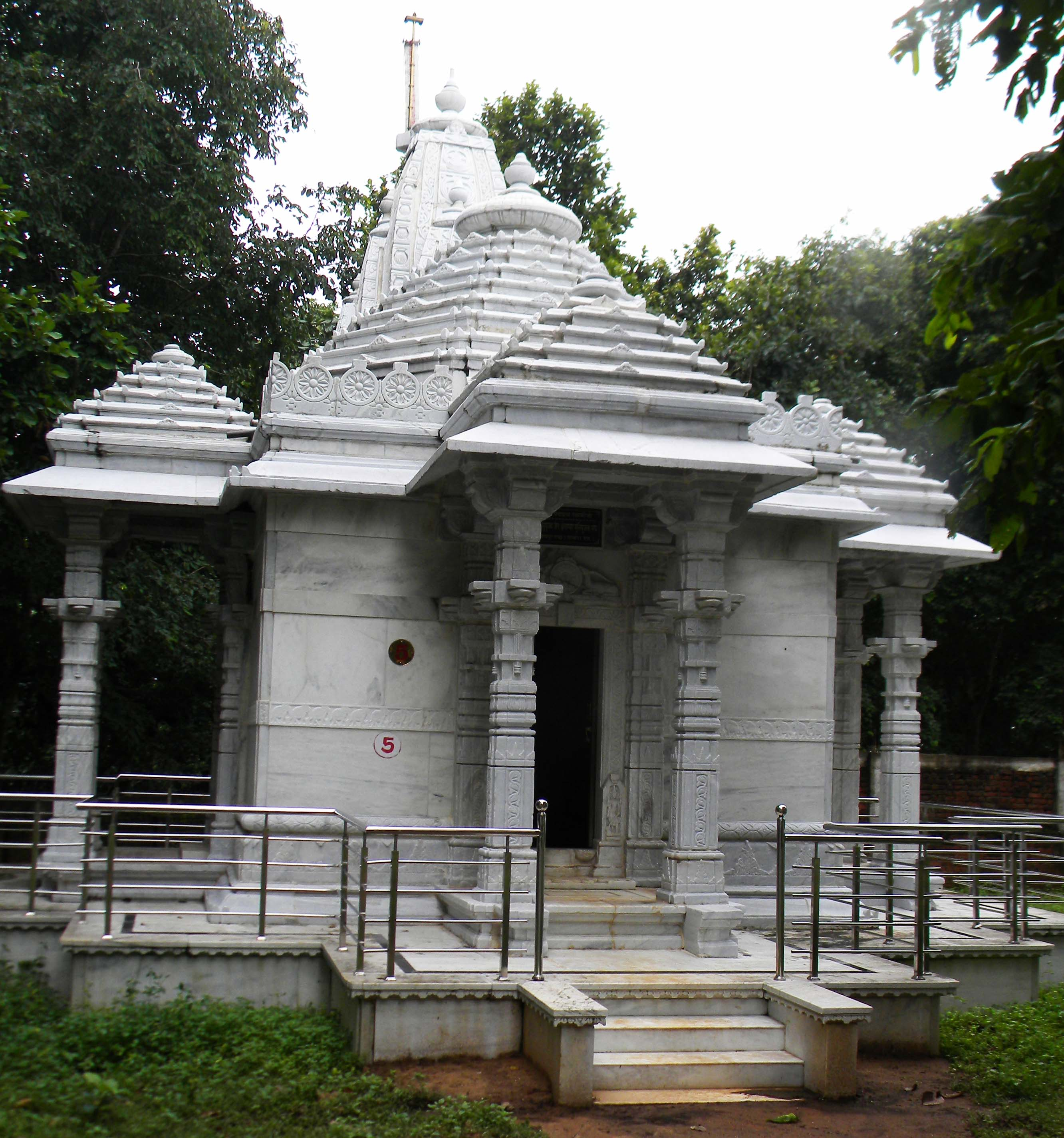 Padmaprabha Temple, Madhuban, Giridih